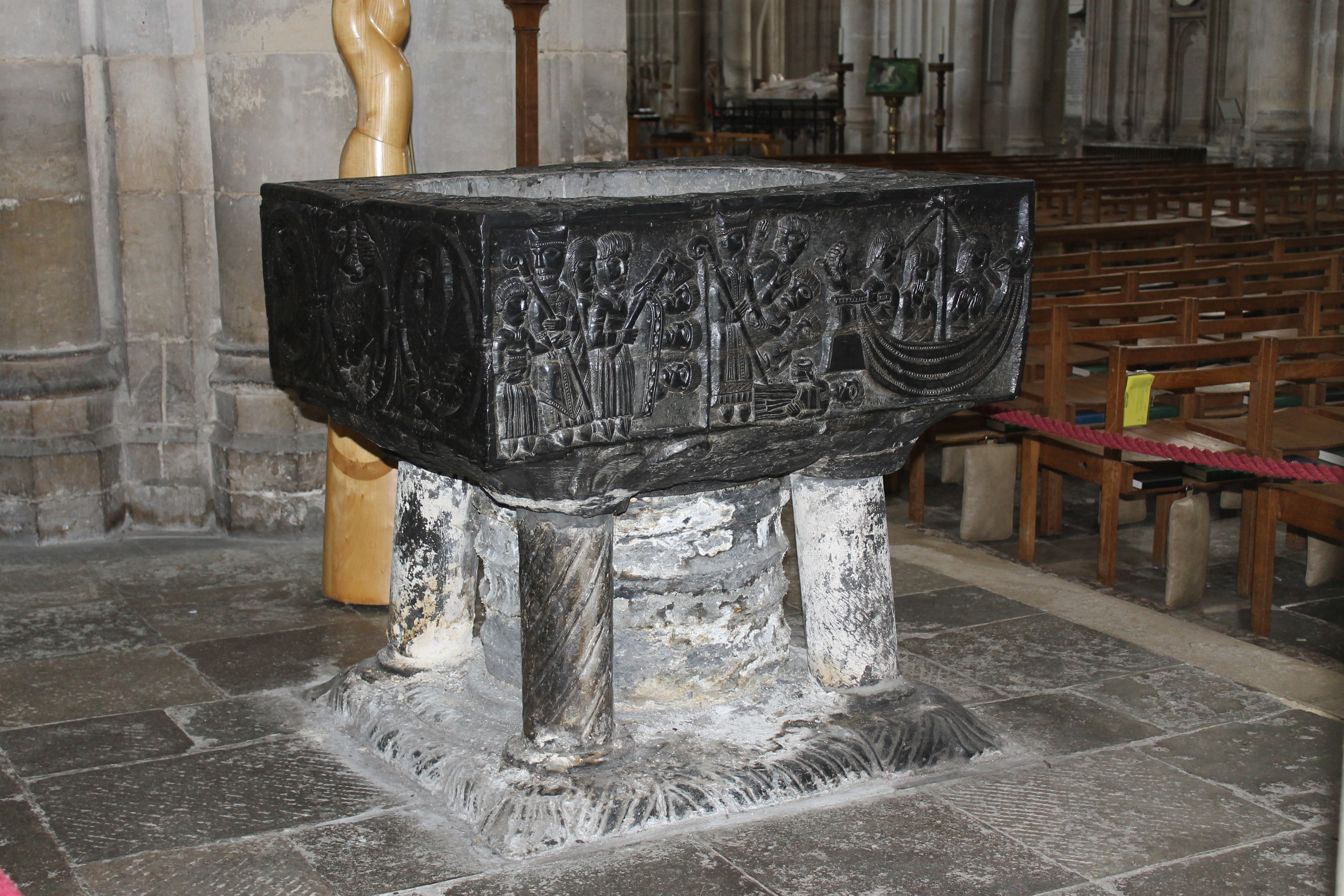 Stone font, brought from Tournai in Belgium to Winchester Cathedral in 12th century. The four sides of the font are decorated with sculpted scenes from the legendary life of St Nicholas. This panel includes a ship, which is the earliest depiction of a ship with a fixed stern rudder and high prow. The font is carved from carboniferous limestone.